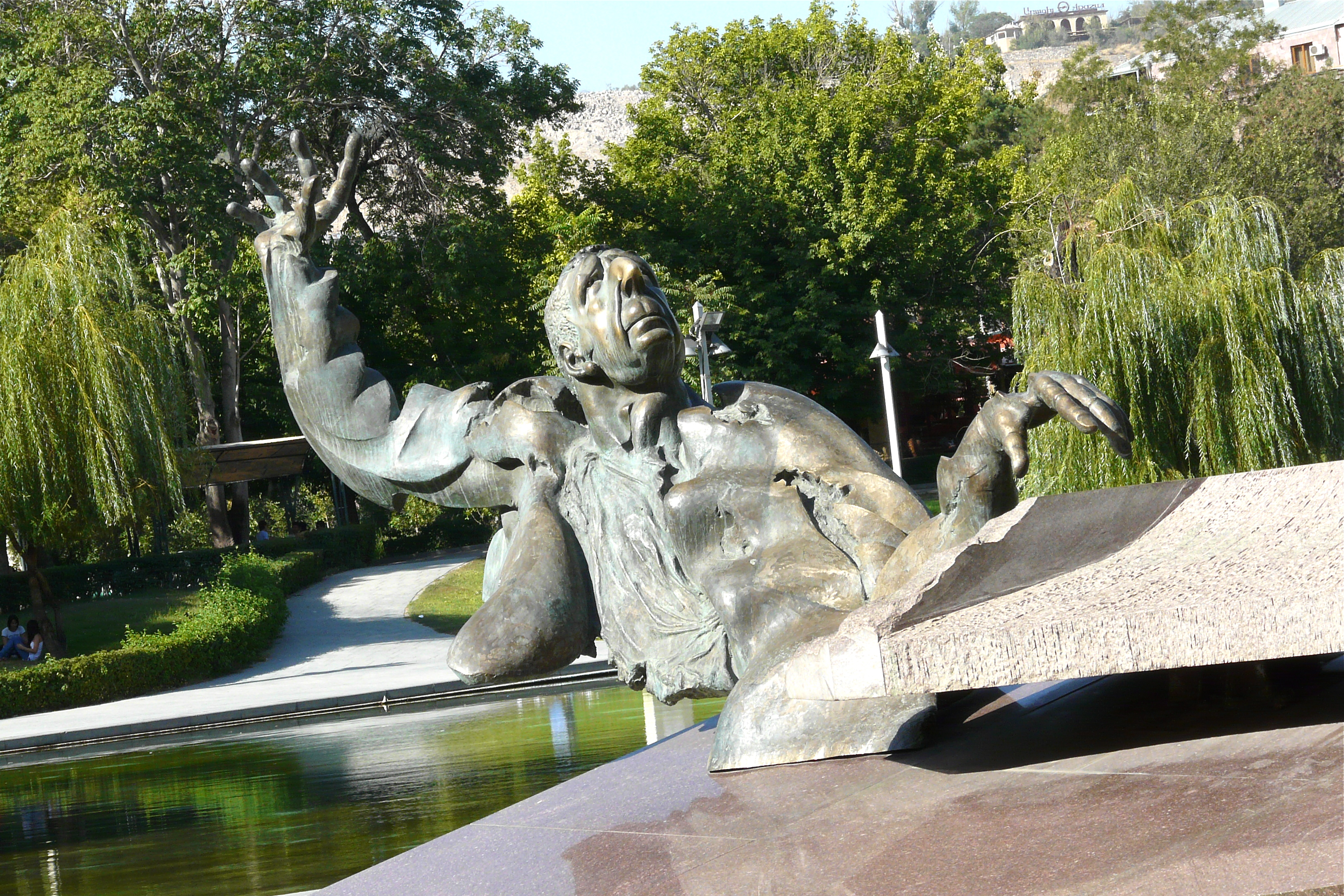 Arno Babajanian statue in Yerevan